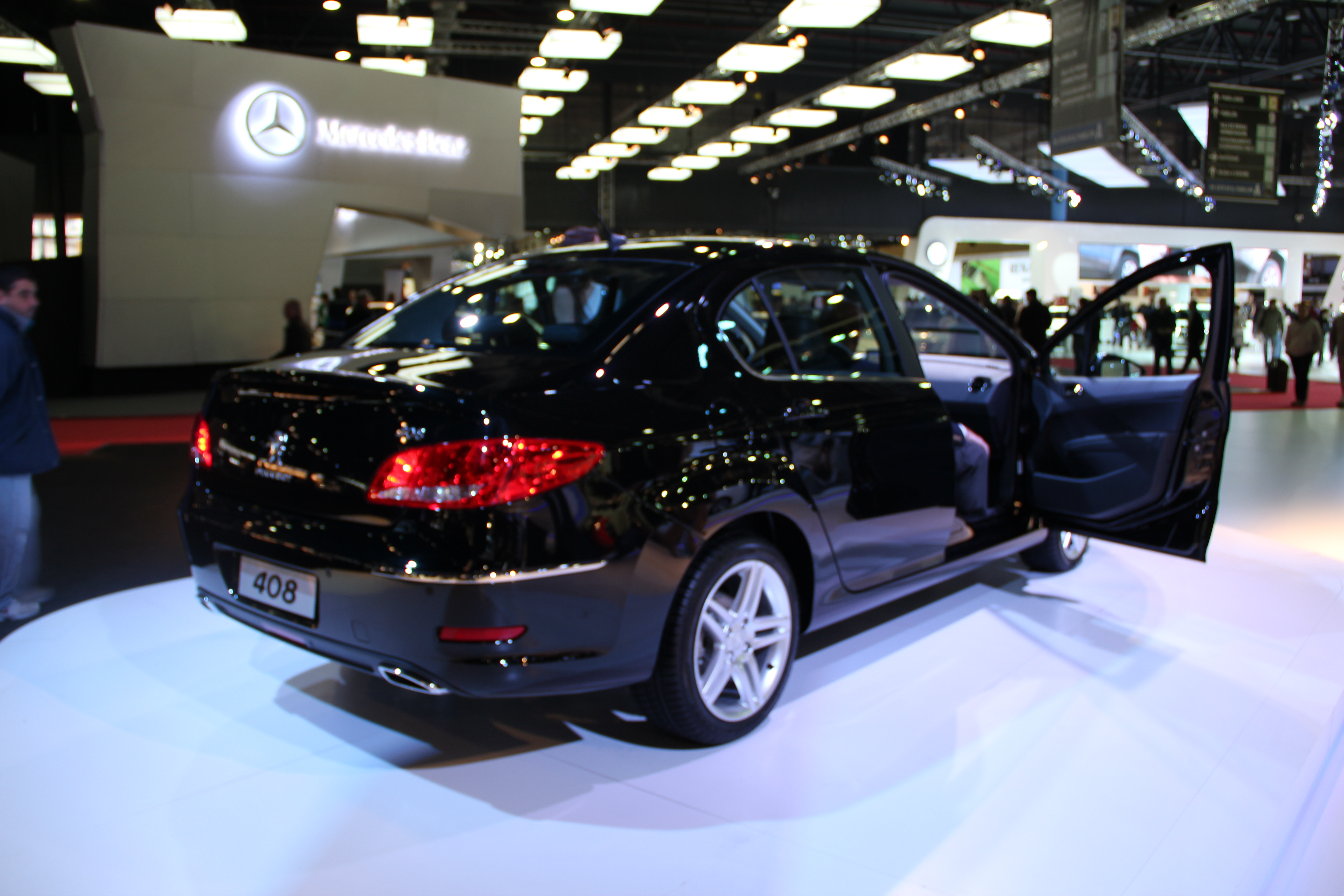 Peugeot 408 Sport (Back) at 2011 BA Motor Show